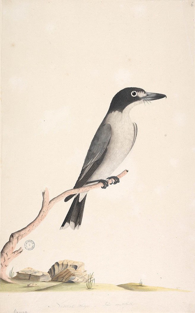 f.10 Grey Butcher-Bird [Cractius torquatus male]